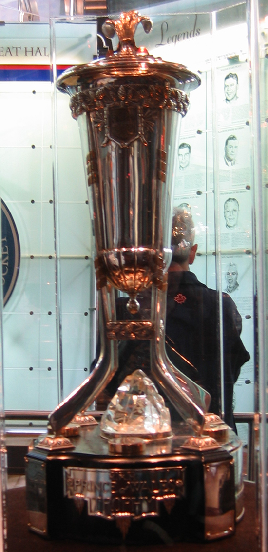 Prince of Wales Trophy on display at the Hockey Hall of Fame in Toronto. The trophy is awarded annually to the NHL Eastern Conference champions. Taken by User:Kmf164 on November 19, 2005.